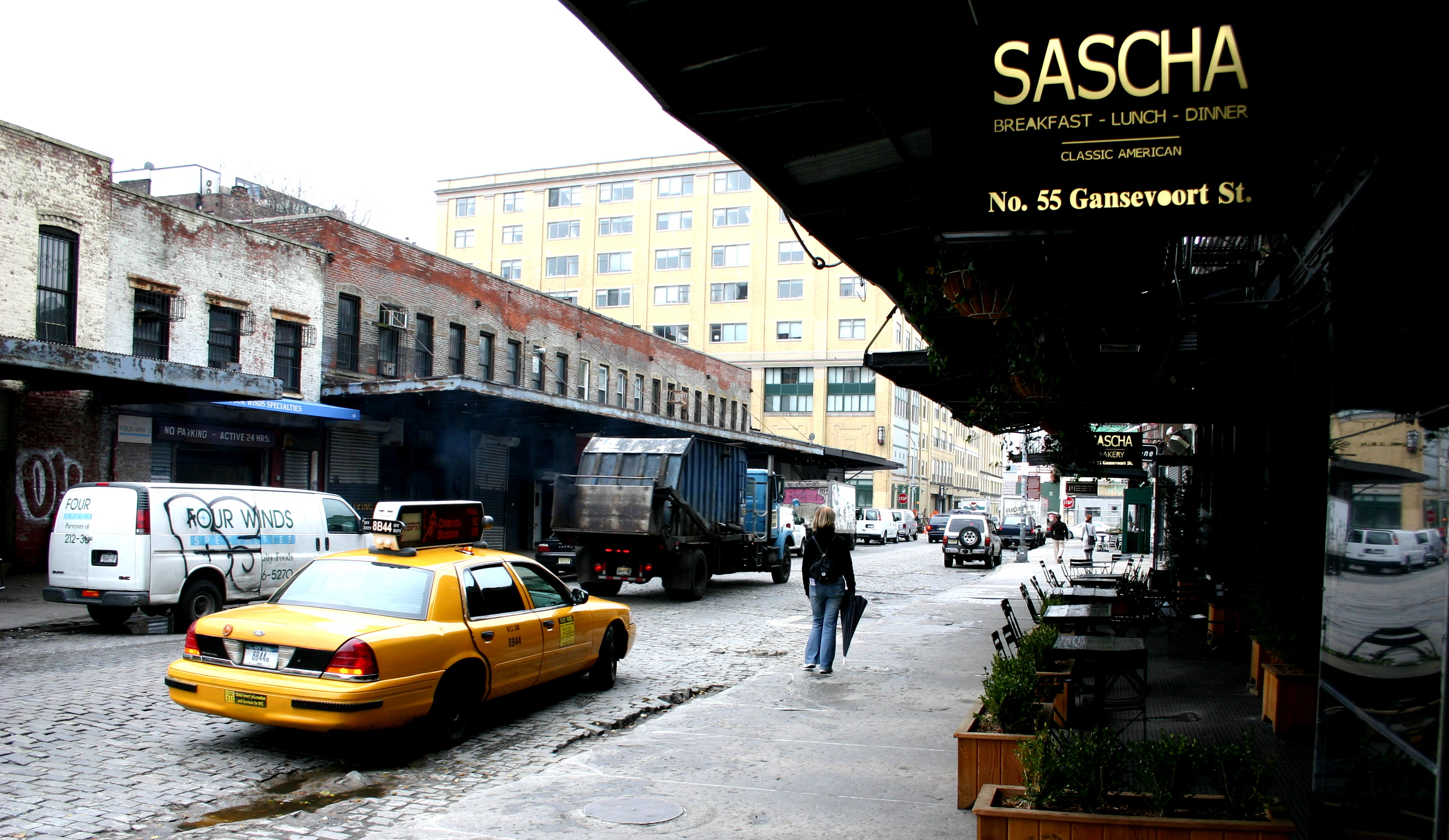 Looking west on Gansevoort Street (three blocks south of West 14th Street), towards West Washington Street, in the Meatpacking District of Manhattan, New York City. At right, a restaurant called Sascha (55 Gansevoort Street). At left, a set of decrepit buildings, approximately 54 to 64 Gansevoort Street.